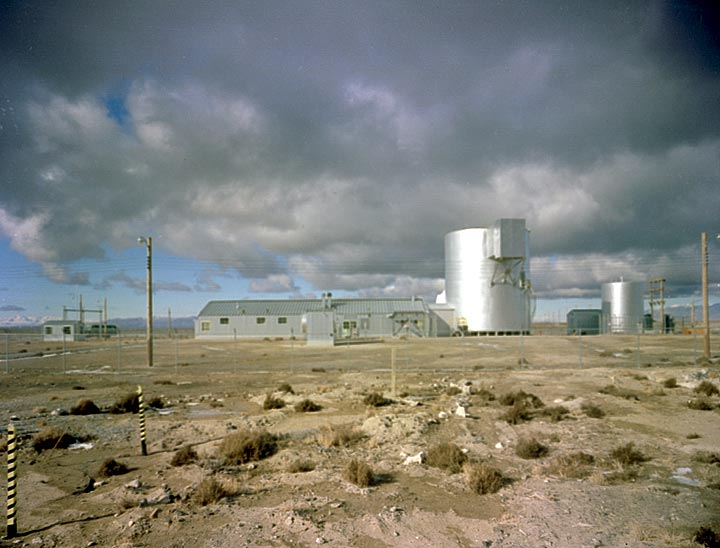 An outside view of the ALPR facility.